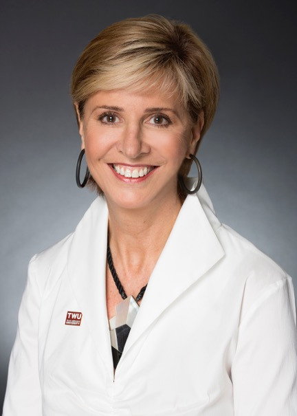 2014 Photograph of Carine M. Feyten, current chancellor and president of Texas Woman's University.